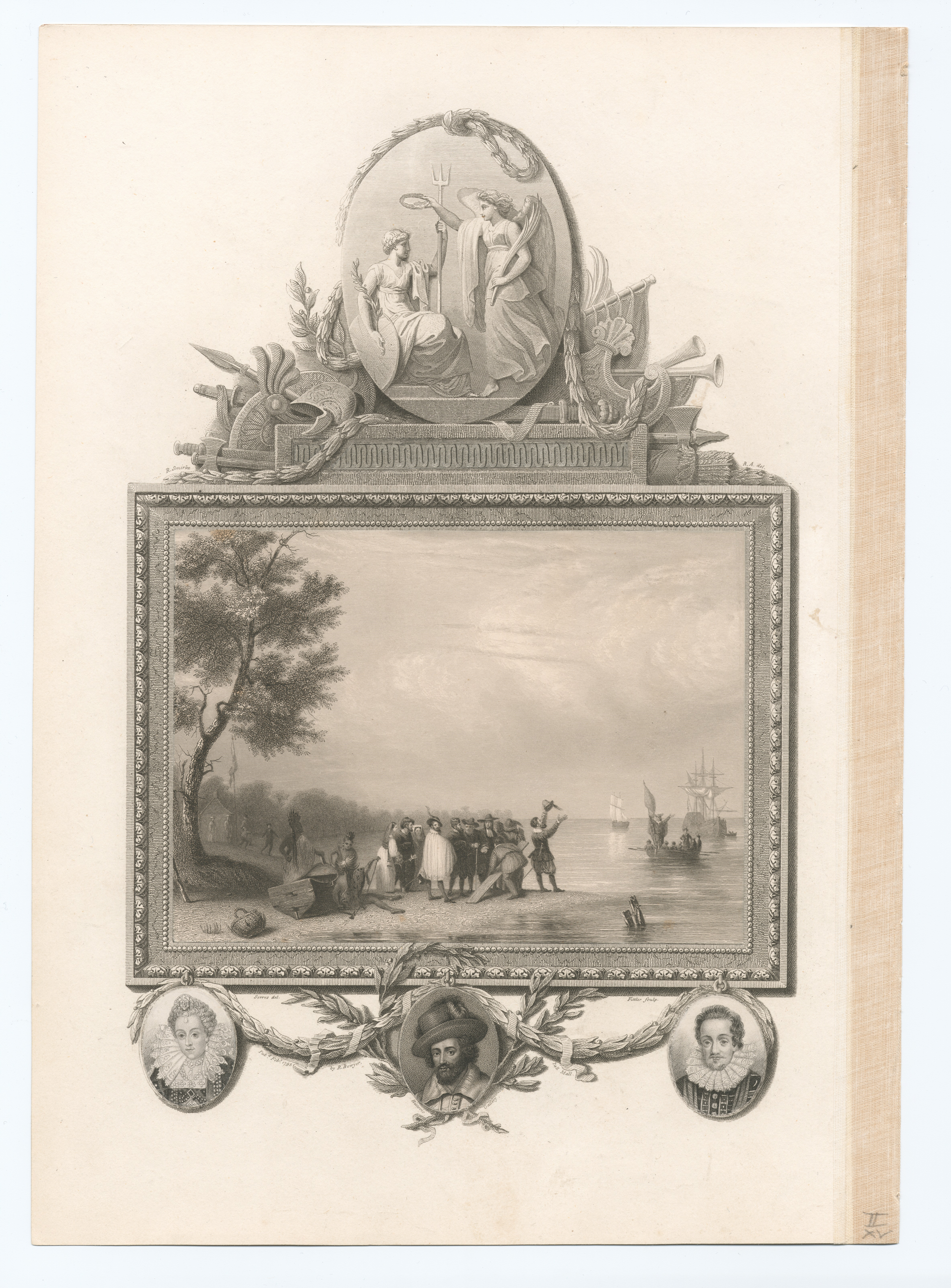 Volume numbers given here refer to the original volume numbers of the publication, not of Lossing's publication. Printmakers include Mosley I. Danforth, F. Gutekunst, Samuel Sartain, T. Sinclair. Draughtsman is David McNeely Stauffer. Title from title page of extra-illustrated volume. EM4253